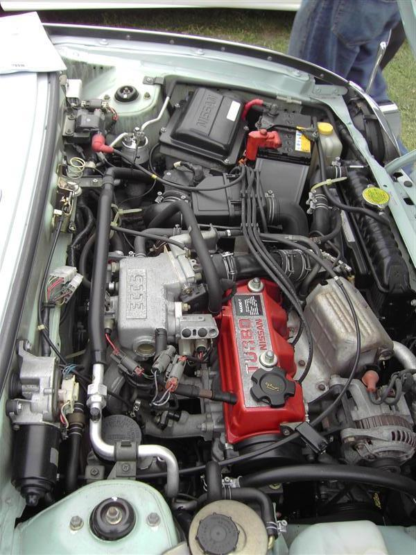 MA10ET engine in a Nissan Figaro. Taken by me at JAE 2005.